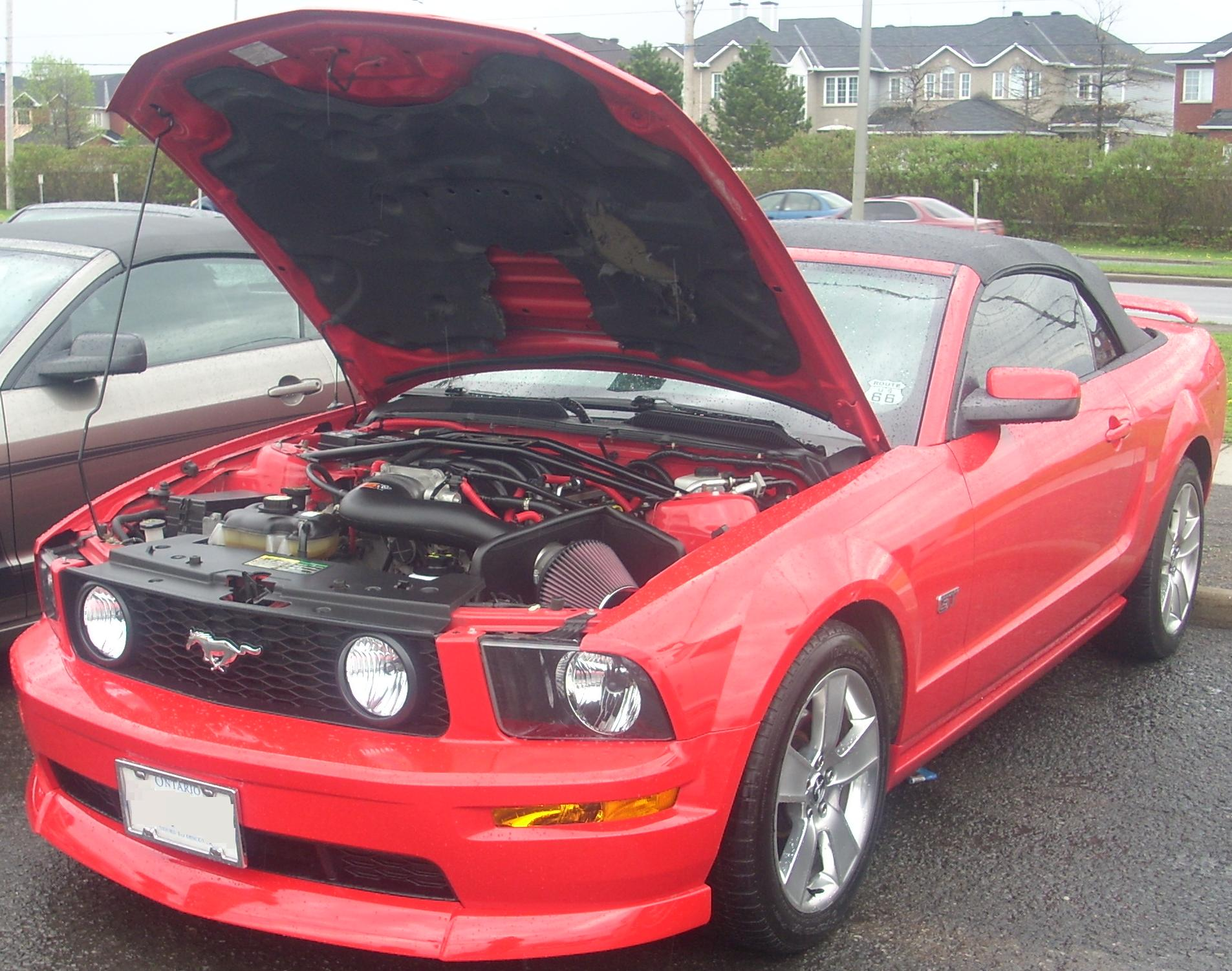 2005-2009 Ford Mustang GT photographed at the 2009 Sterling Ford Ottawa Auto Show.